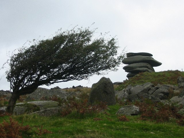 Windswept tree and the Cheesewring. The pile of rocks in the background is the Cheesewring. The cheesewring quarry lies just a metre or so to the right of the cheesewring in this photo. Thankfully expansion of the quarry was halted as this would have meant the loss of this Cornish landmark. And although it looks as if the tree is supporting the Cheesewring, don't panic, the cheesewring won't collapse if the tree is removed.